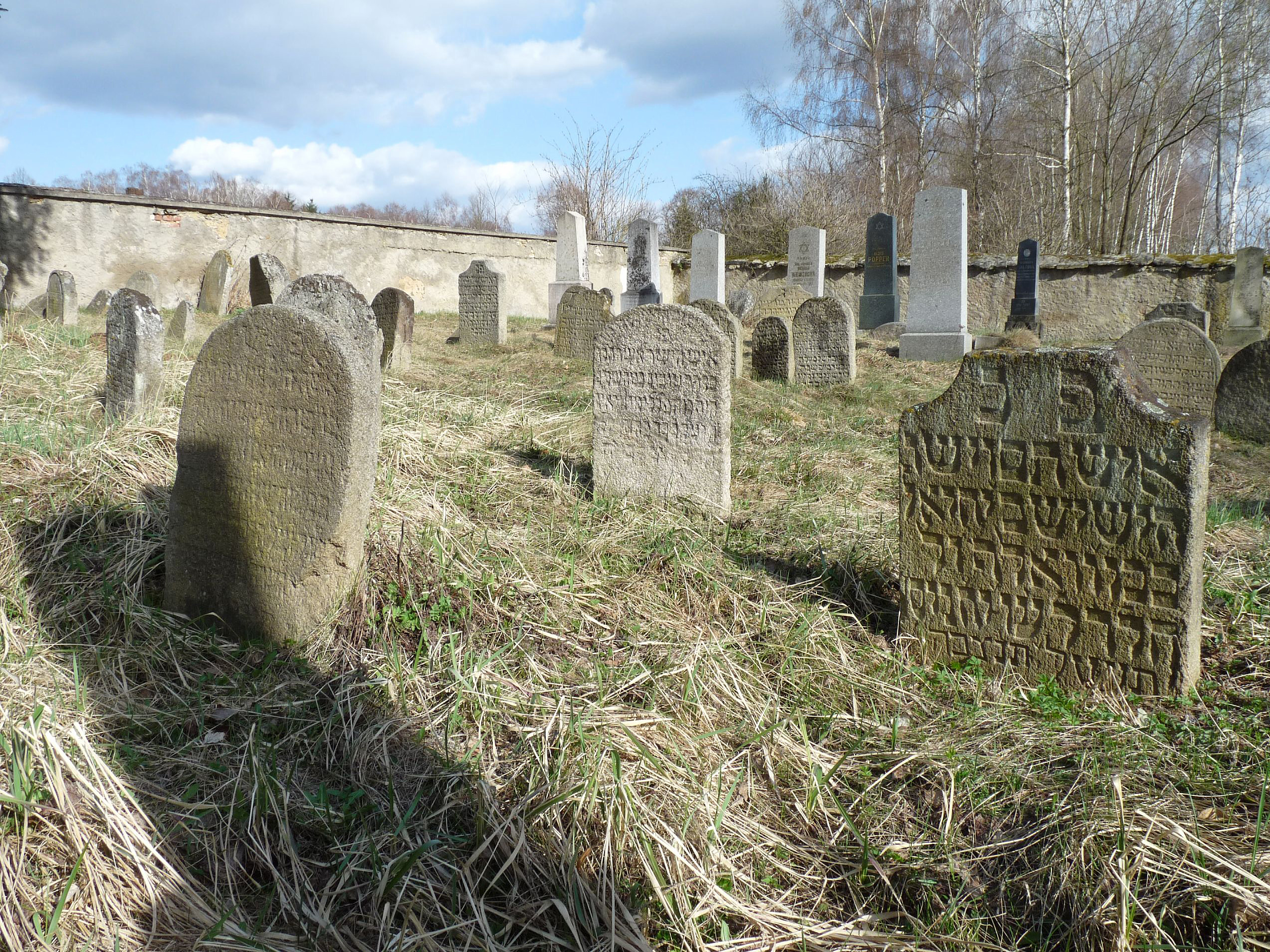 Jewish cemetery at the town of Kardašova Řečice, Jindřichův Hradec District, Czech Republic